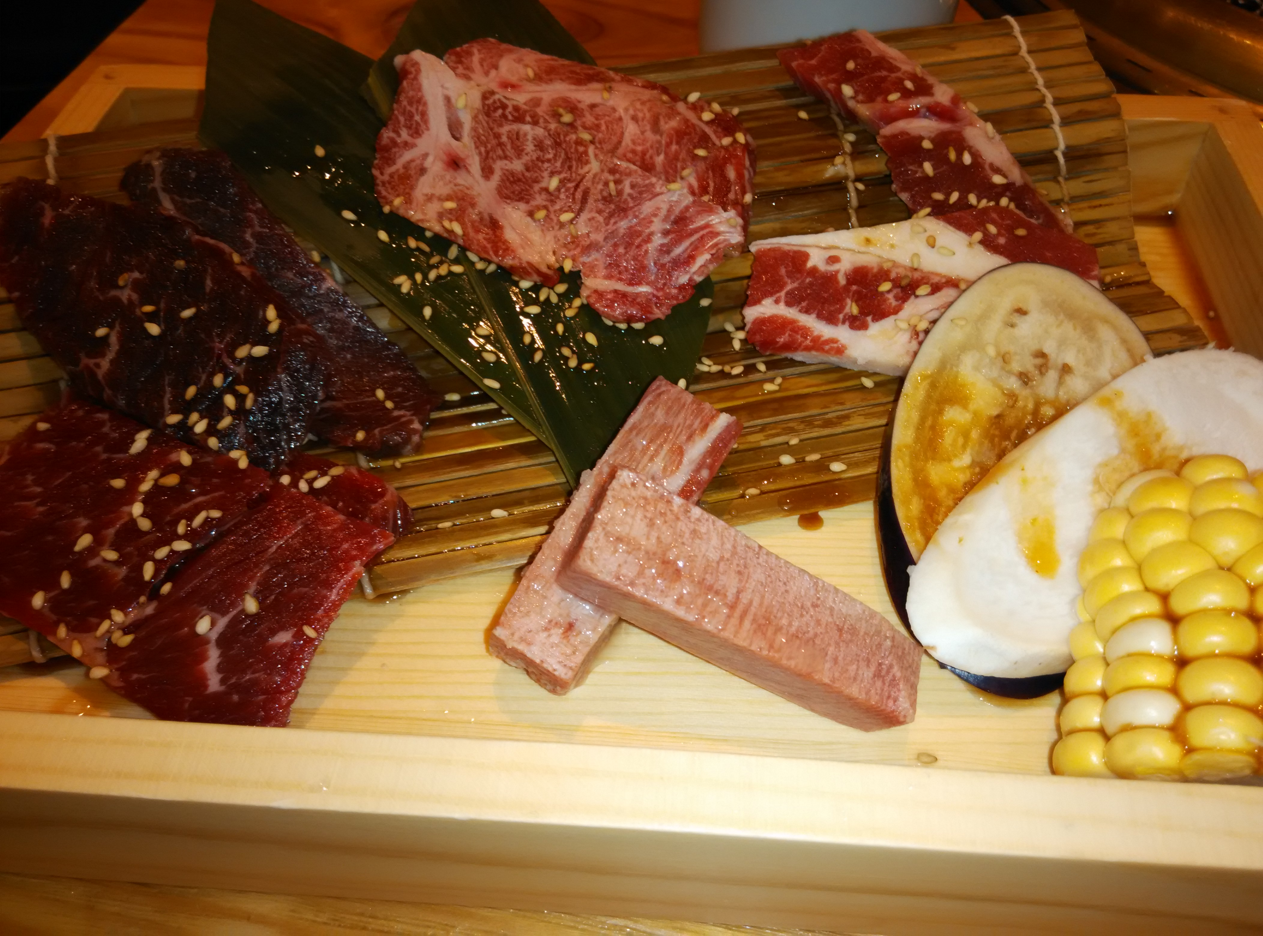 中文（香港）: Raw beef for Japanese barbecue